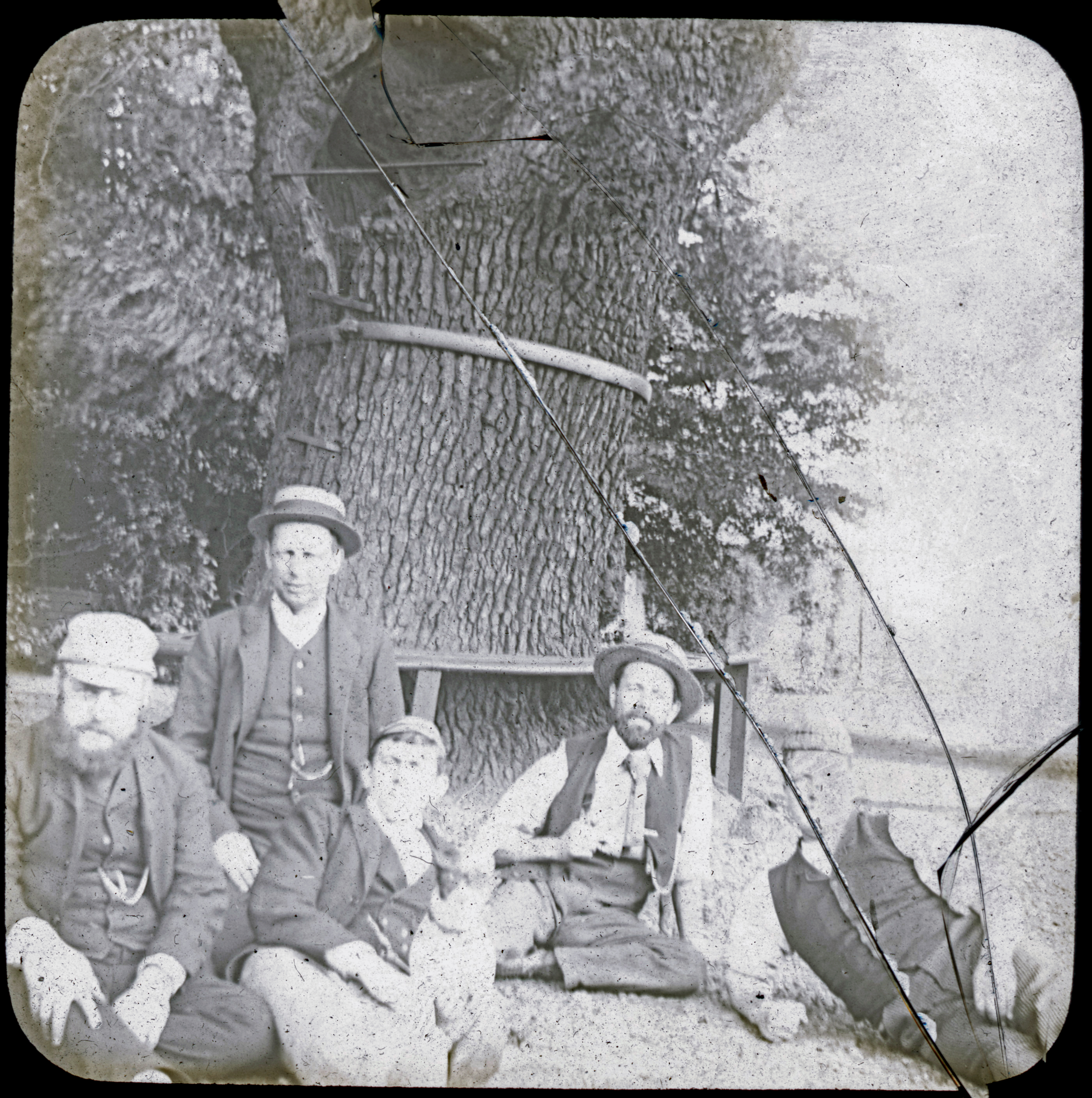 The already ancient Queen Anne Oak tree in Bedfords Park, Romford, England (circa 1860)